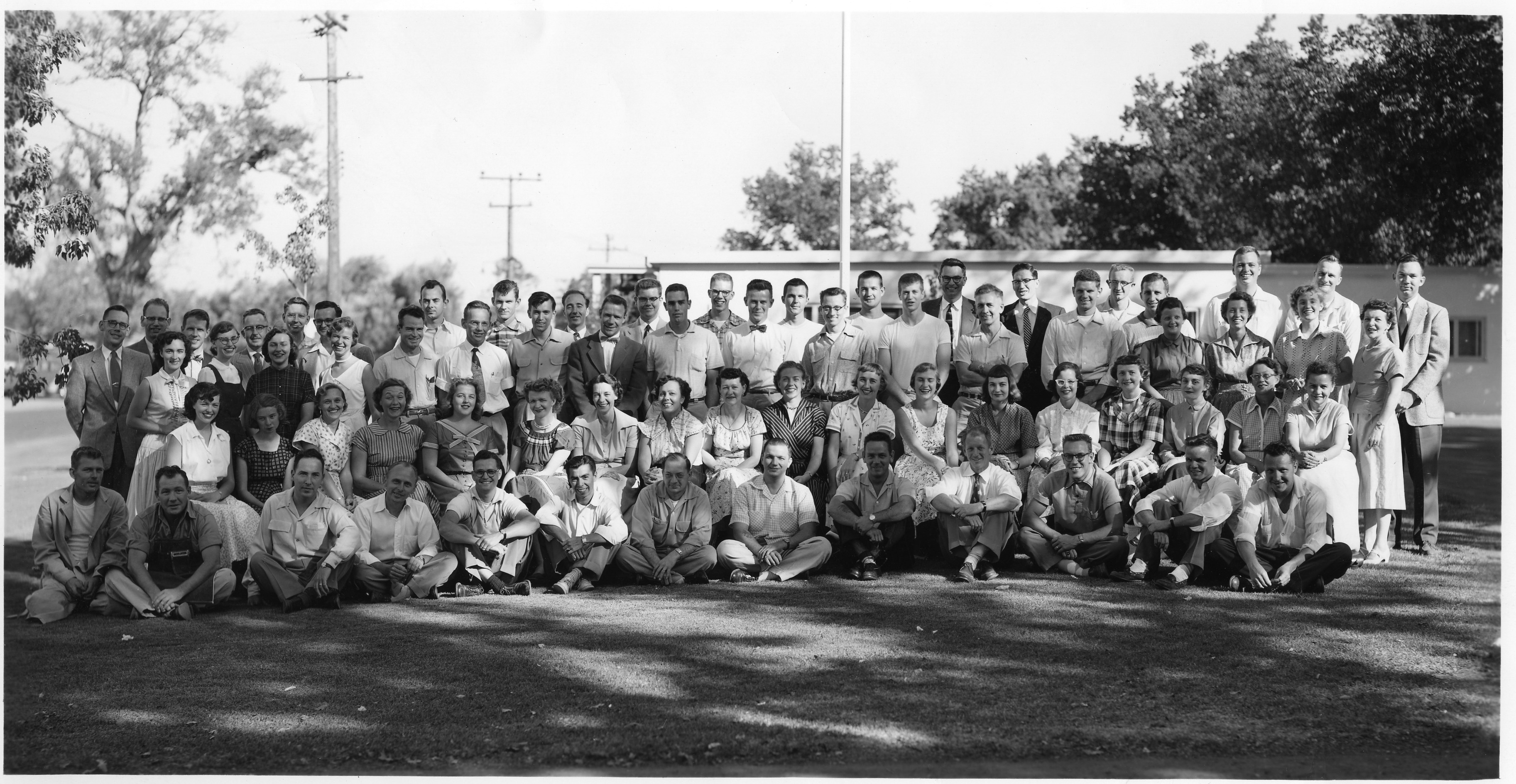 The SRI International team that created Electronic Recording Machine, Accounting